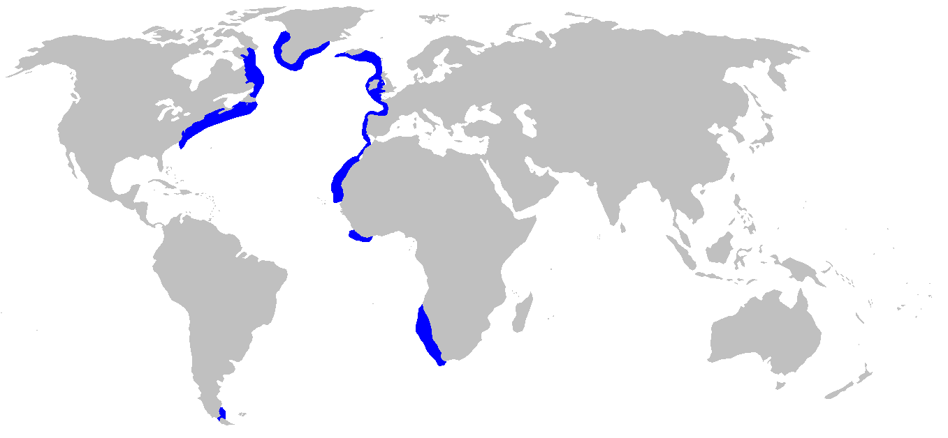 Distribution map for Centroscyllium fabricii